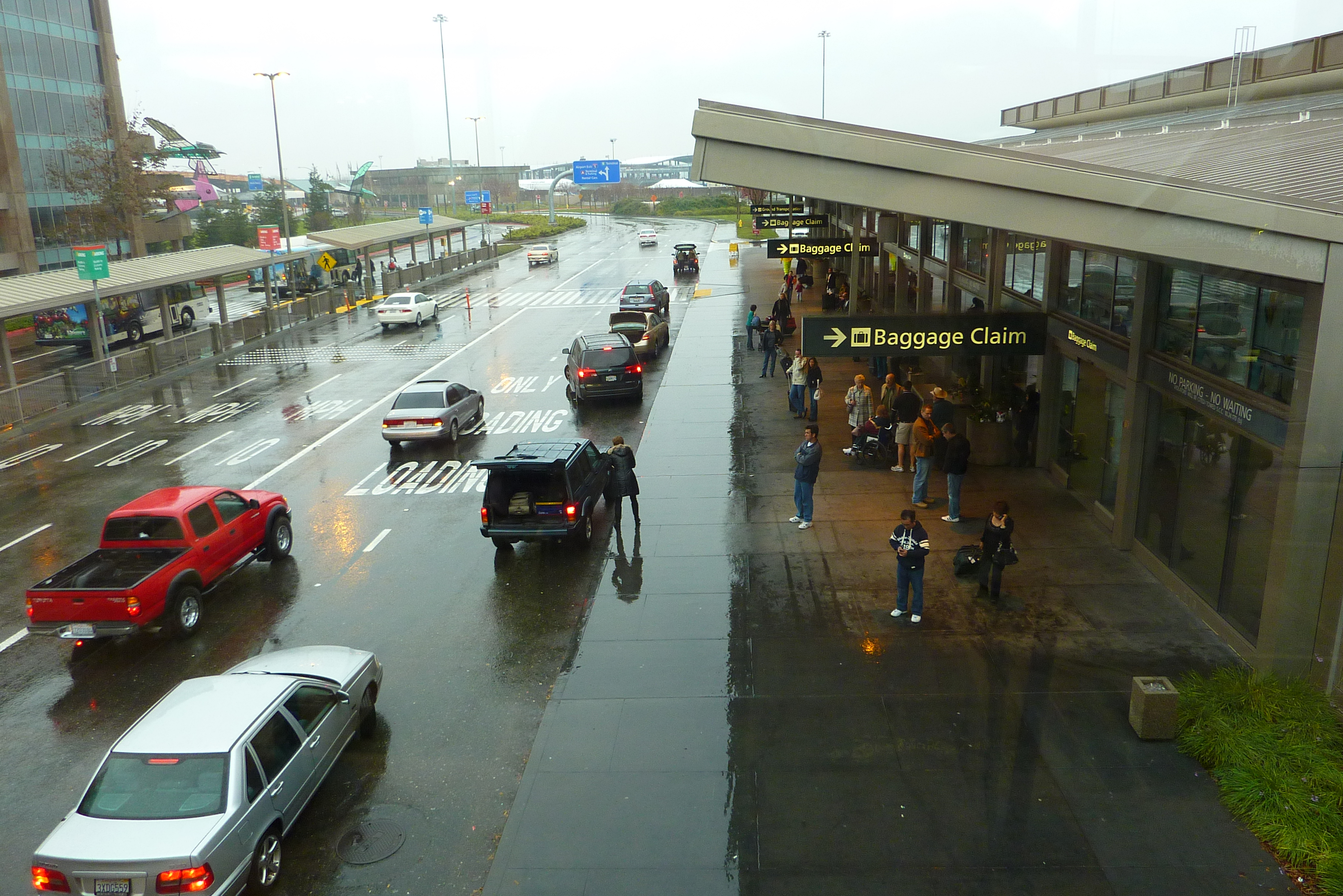 Terminal A on a wet day in December, 2009